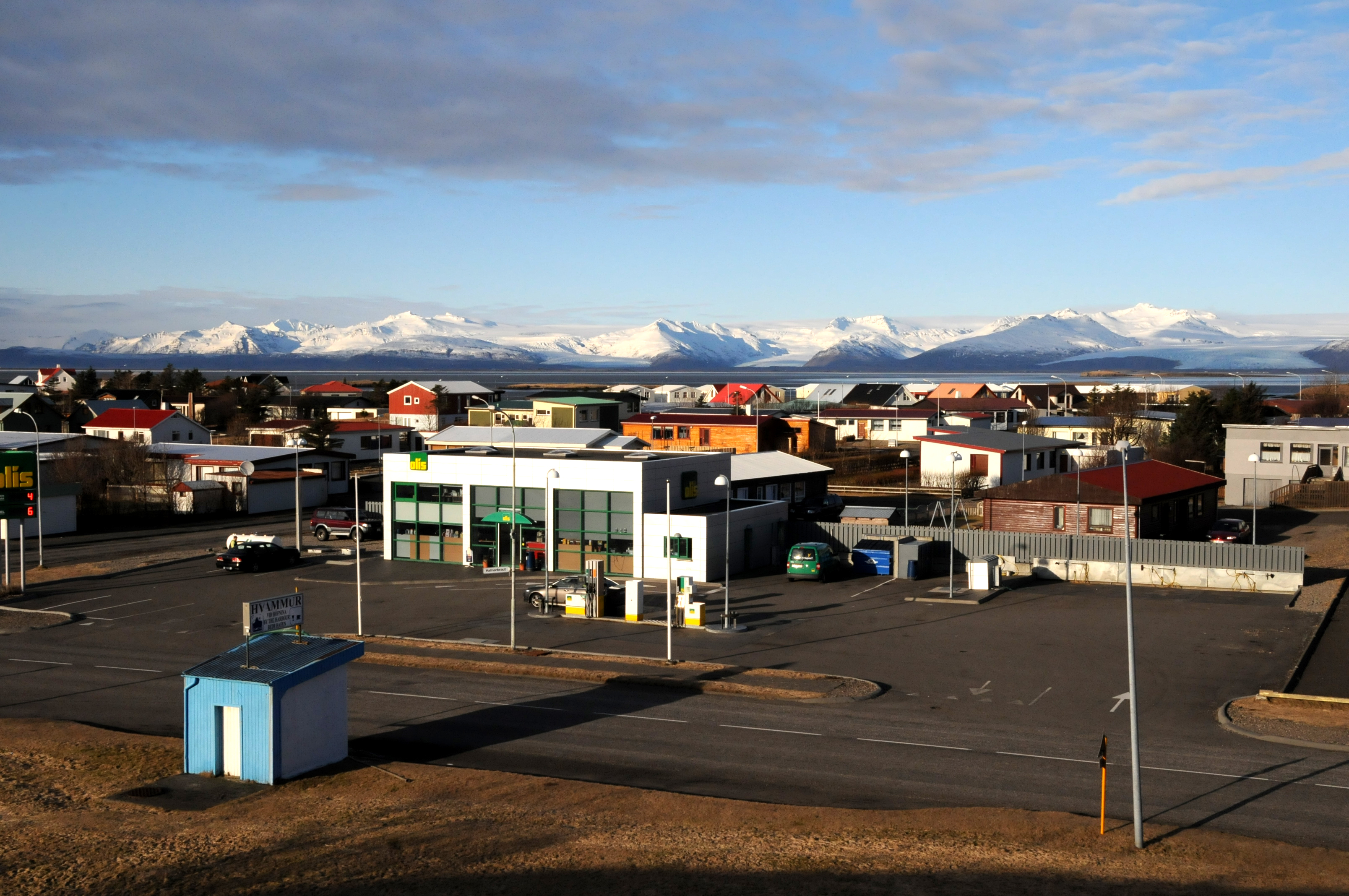 Town of Höfn í Hornafirði in the southeastern part of Iceland.